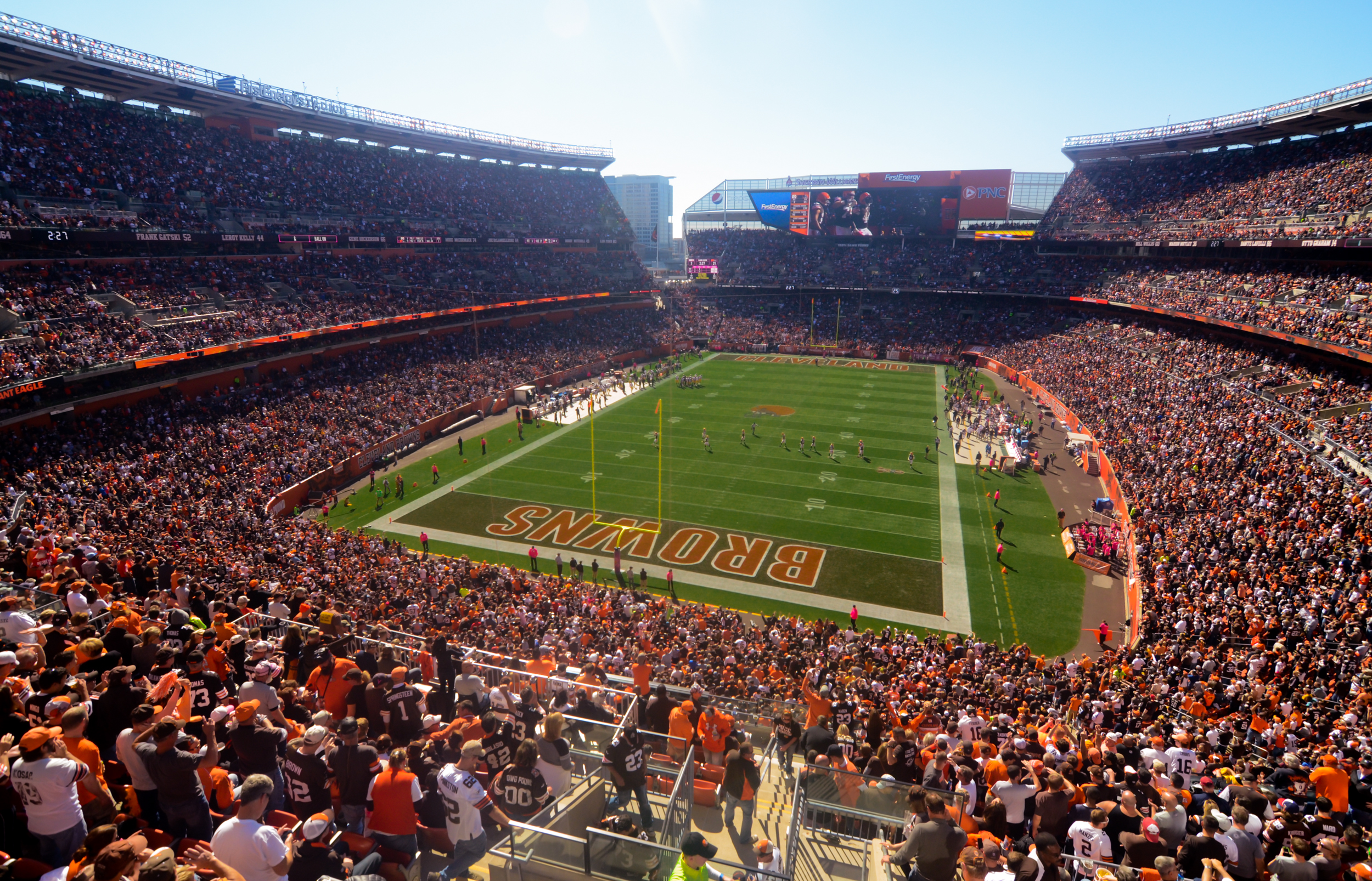 Cleveland Browns vs. Pittsburgh Steelers by Flickr user Erik Drost